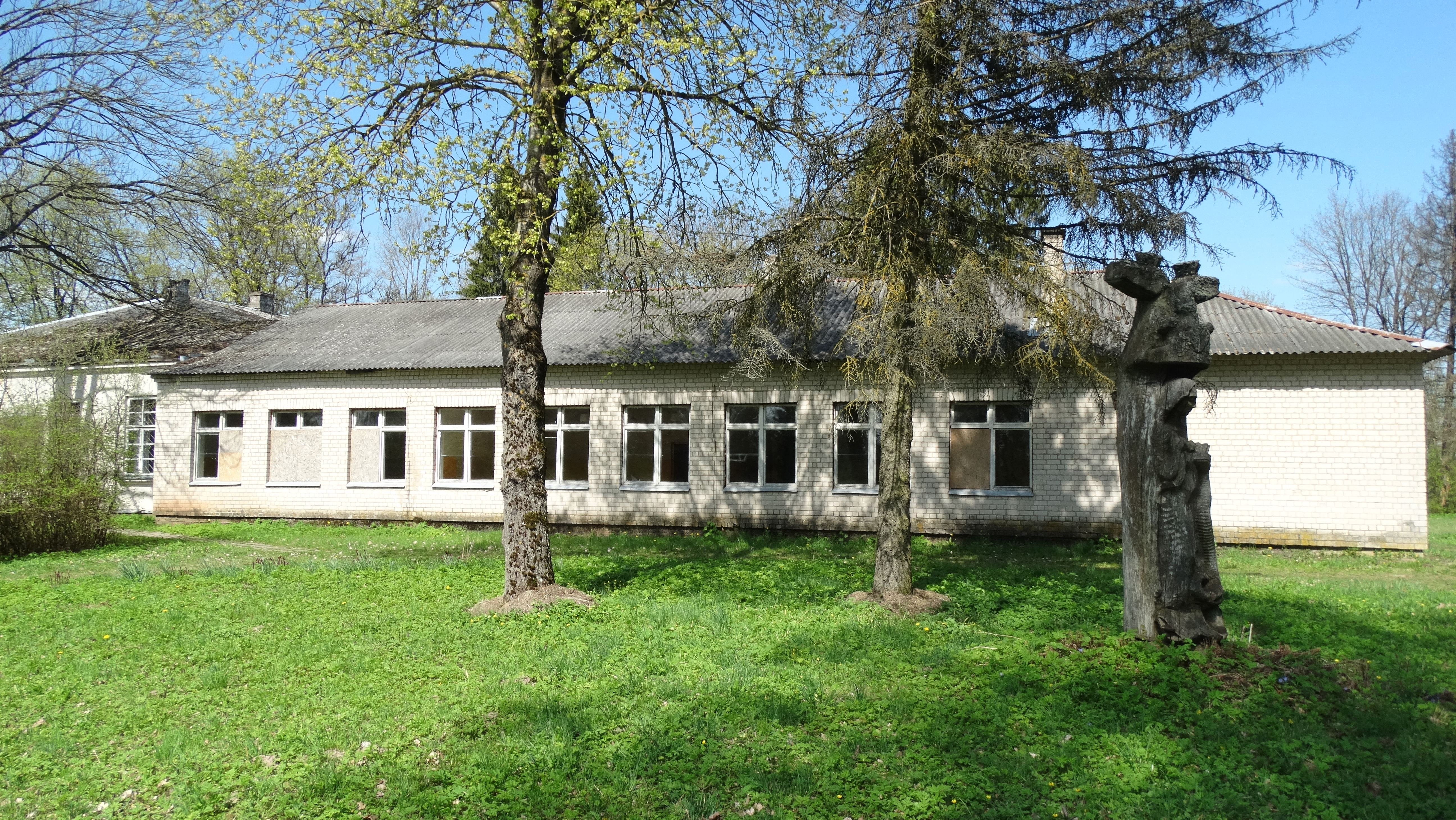 School in Liukonys, Širvintos District, Lithuania